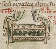 Birth of Edmund Crouchback, 1245. Recorded by Matthew Paris, Chronica Majora, British Library, Royal 14 C VII f. 138